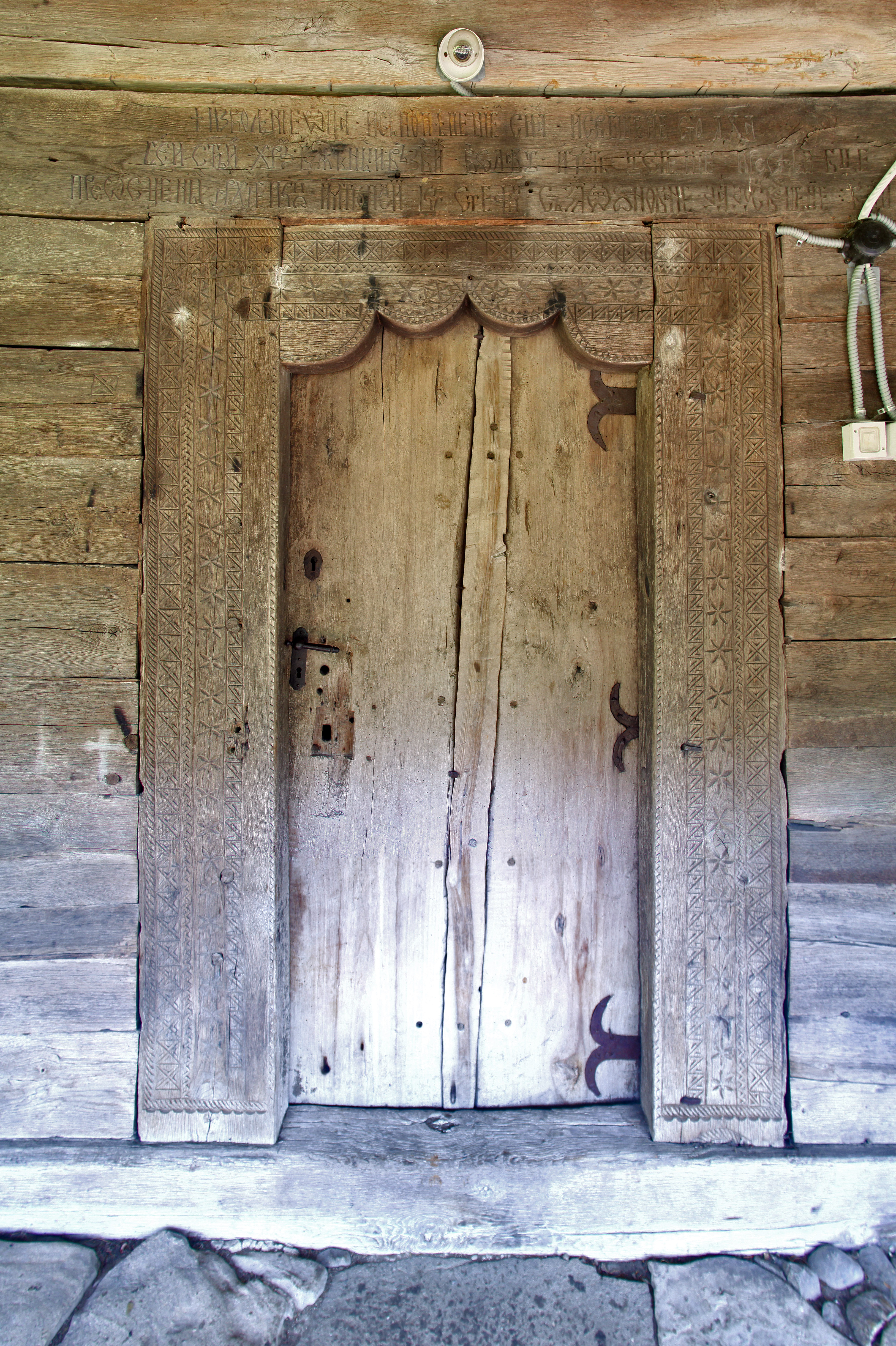 Grămeşti, Pietreni, Vâlcea county, Romania: the wooden church. The portal of the entrance.